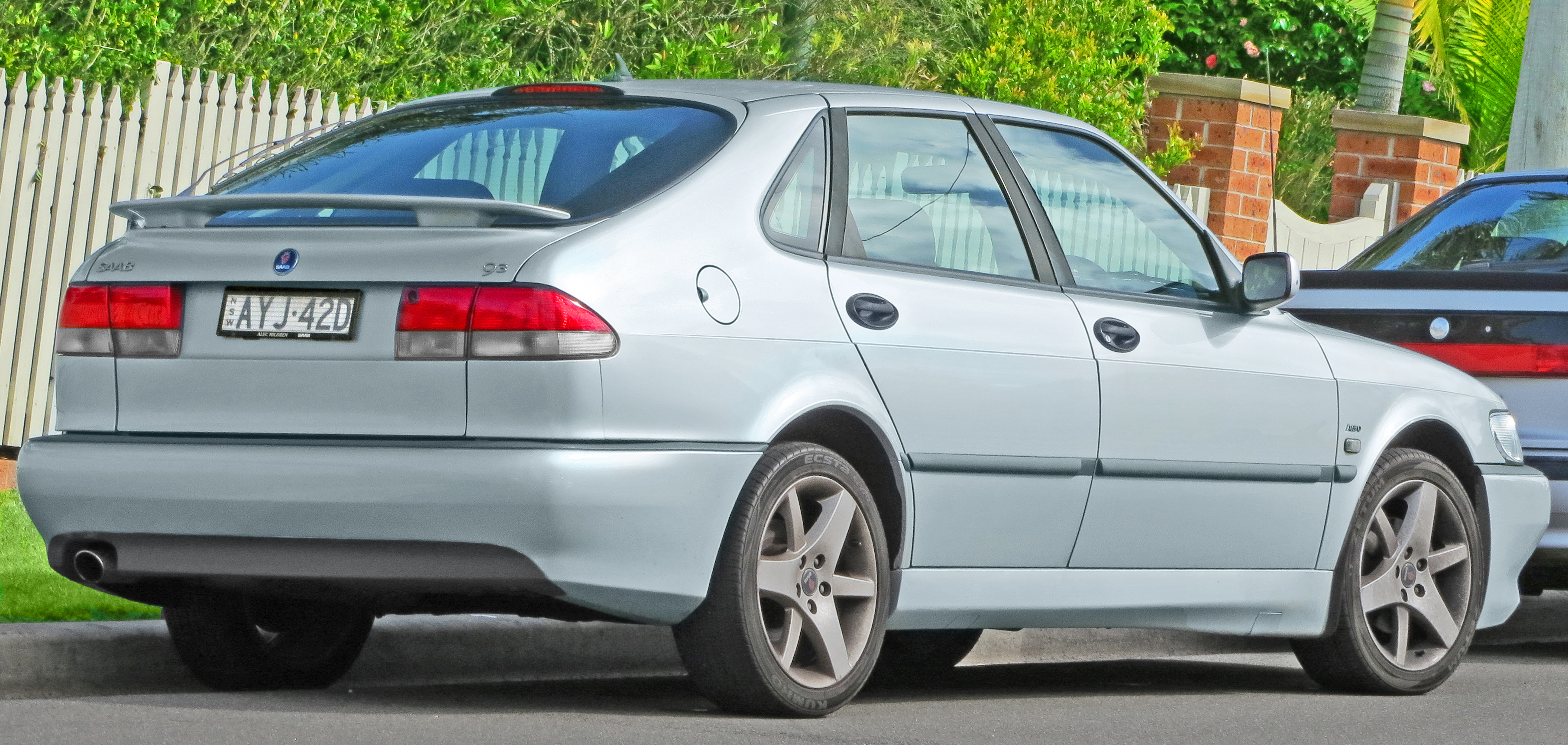 2002 Saab 9-3 Aero 5-door hatchback. Photographed in Cronulla, New South Wales, Australia.